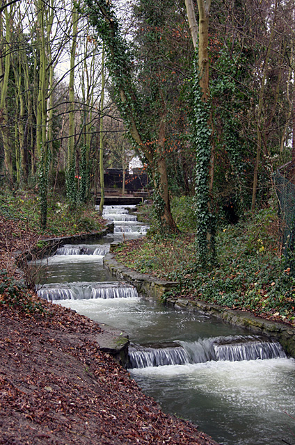 River Ver The river is in full spate after heavy rainfall over the previous week. The river divides for a short distance here, so this series of stepped falls are carrying around half of the river's flow. The white building at the top is the Fighting Cocks public house.